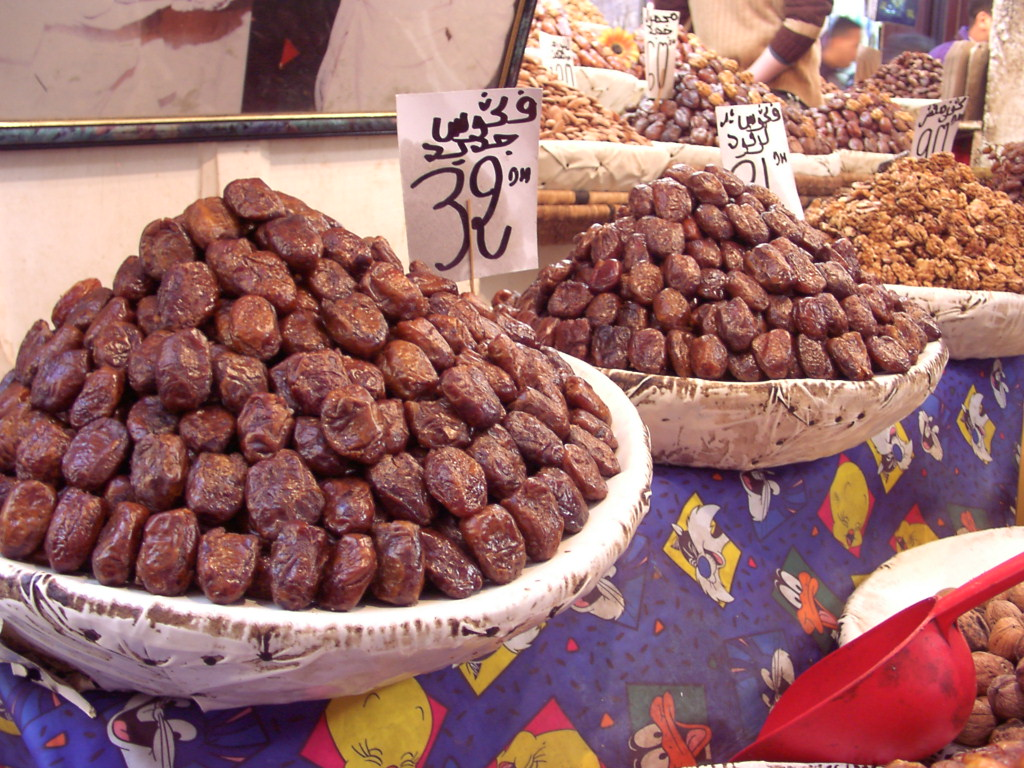 Dates on bazaar in Morocco